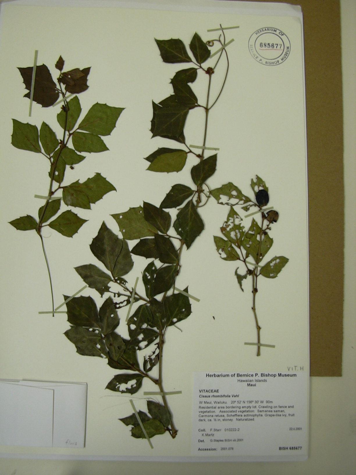 Cissus alata (syn. Cissus rhombifolia). BISH specimen. Location: Maui, Wailuku